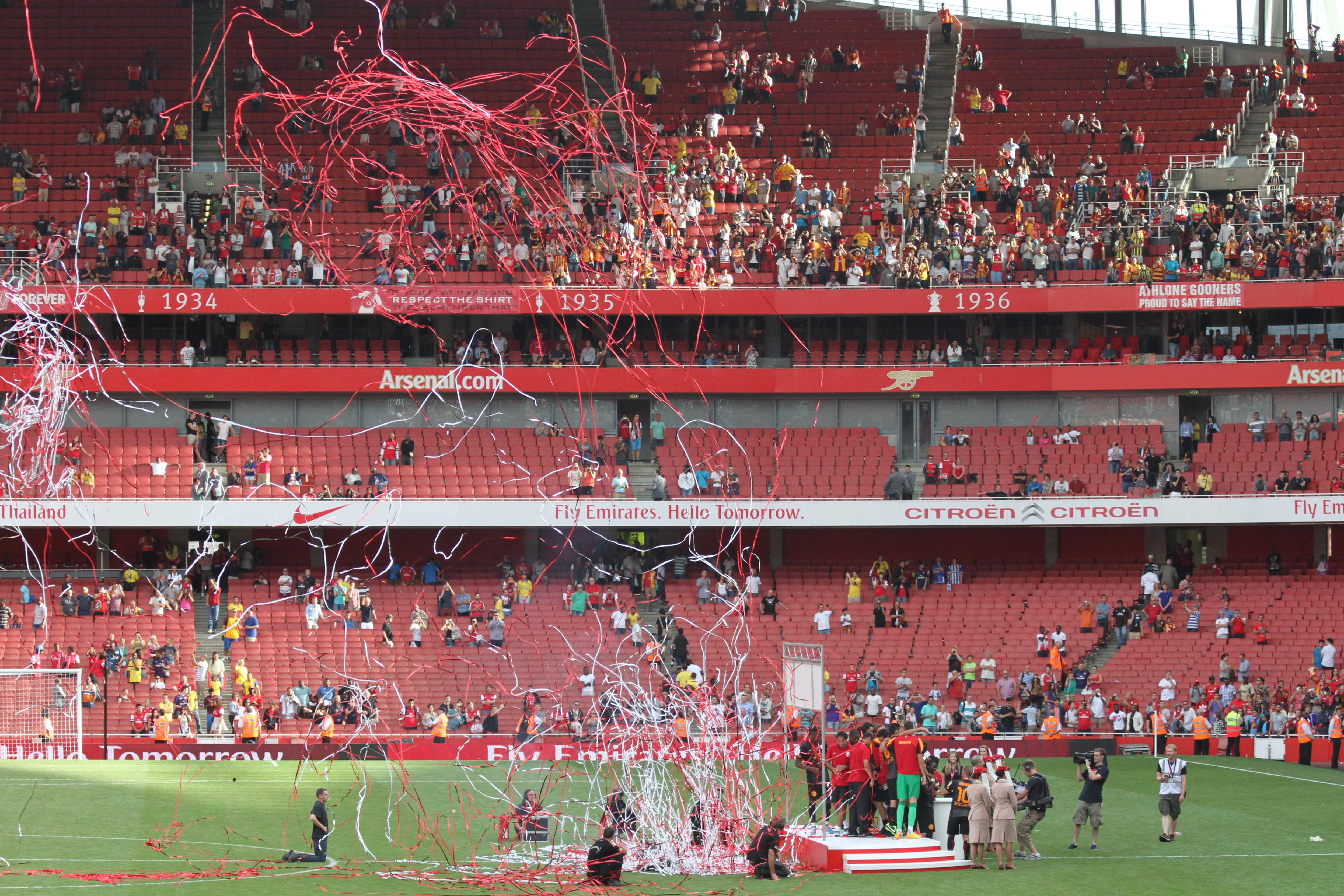 2013 Emiretes Cup Galatasaray celebrate winning!